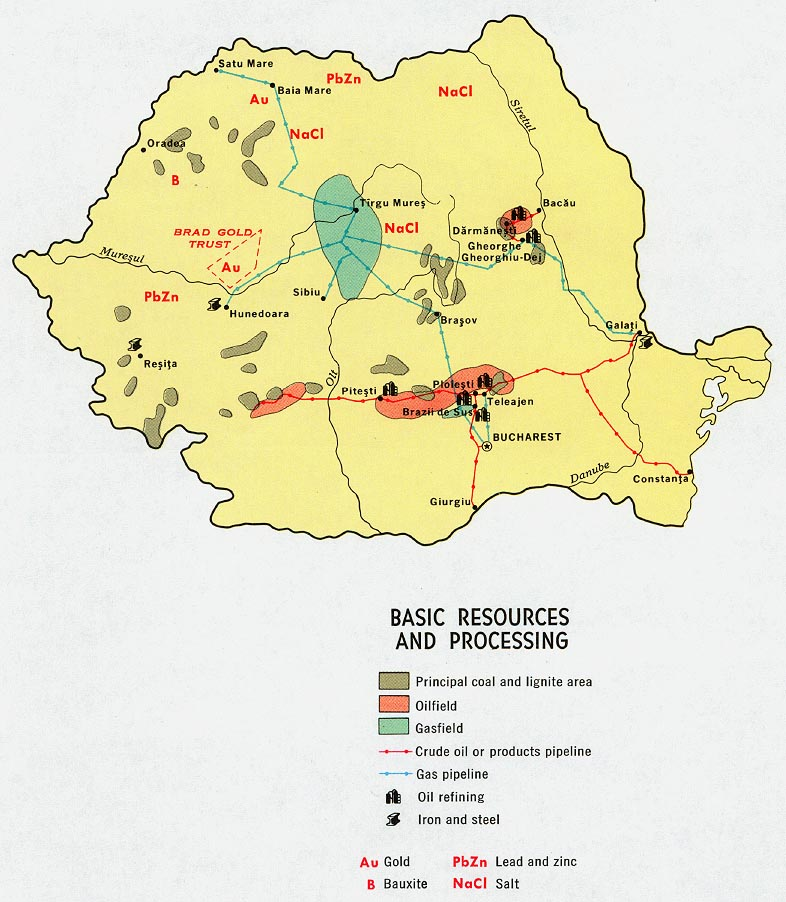 Romania - Basic Resources and Processing